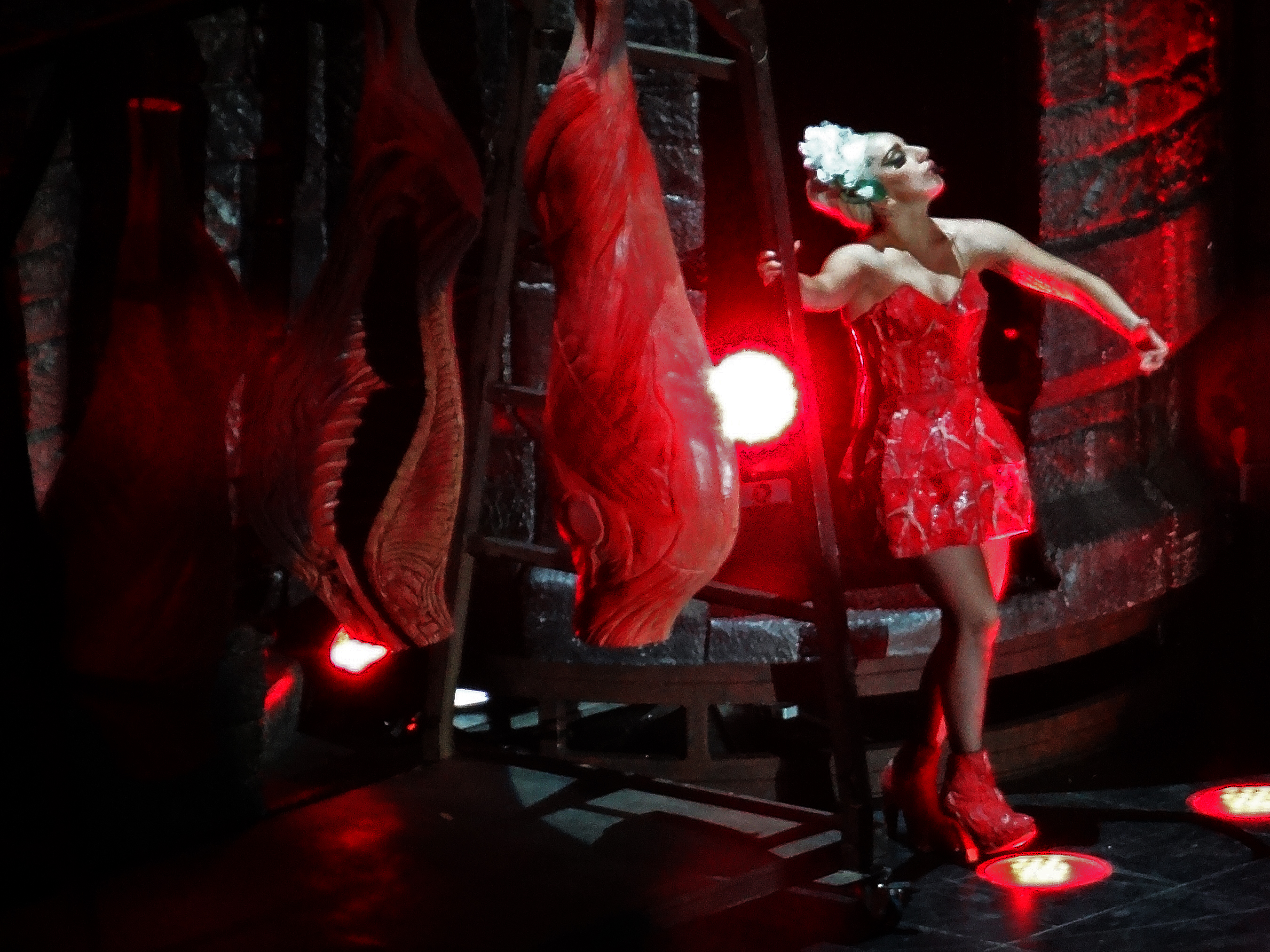 Lady Gaga performing "Americano" on The Born This Way Ball Tour.